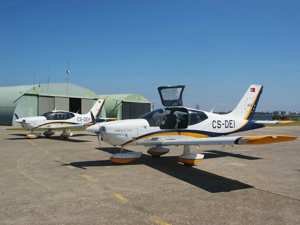 Two Socata TB-200GT's at Aveiro airport